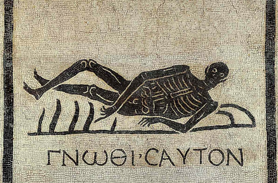 Memento Mori mosaic from excavations in the convent of San Gregorio, Via Appia, Rome, Italy. Now in the National Museum Bath of Diocletian, Rome, Italy. The Greek motto gnōthi sauton (know thyself, nosce te ipsum) combines with the image to convey the famous warning: Respice post te; hominem te esse memento; memento mori. (Look behind; remember that you are mortal; remember death.)